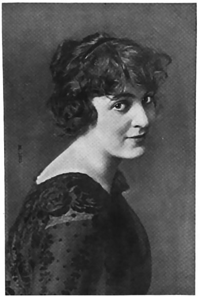 Helen Holmes